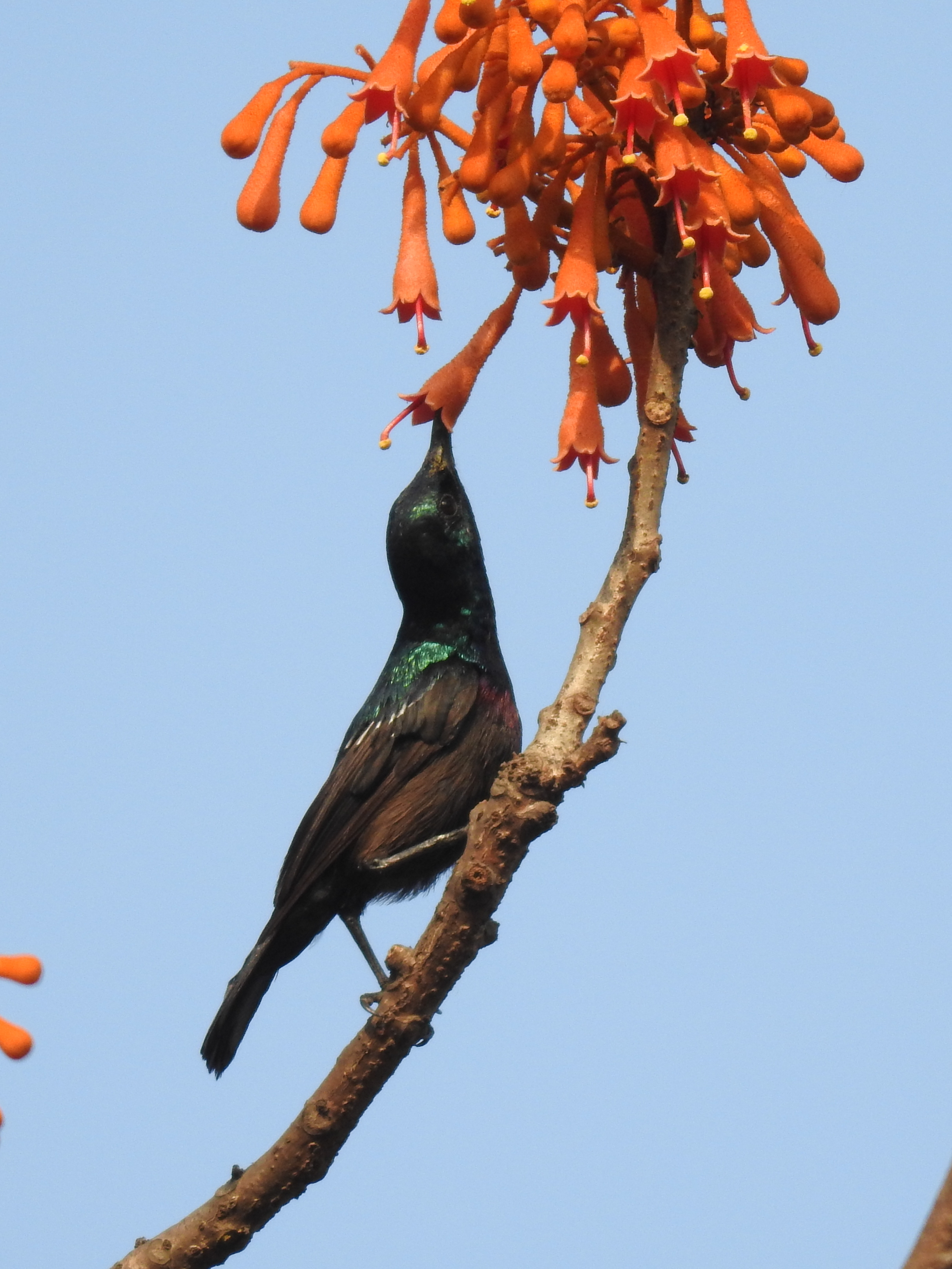 Loten's Sunbird Cinnyris lotenius nectaring on Scarlet Sterculia Sterculia colorata. Photo by Dr. Raju Kasambe near Dombivli, dist. Thane, Maharashtra, India.